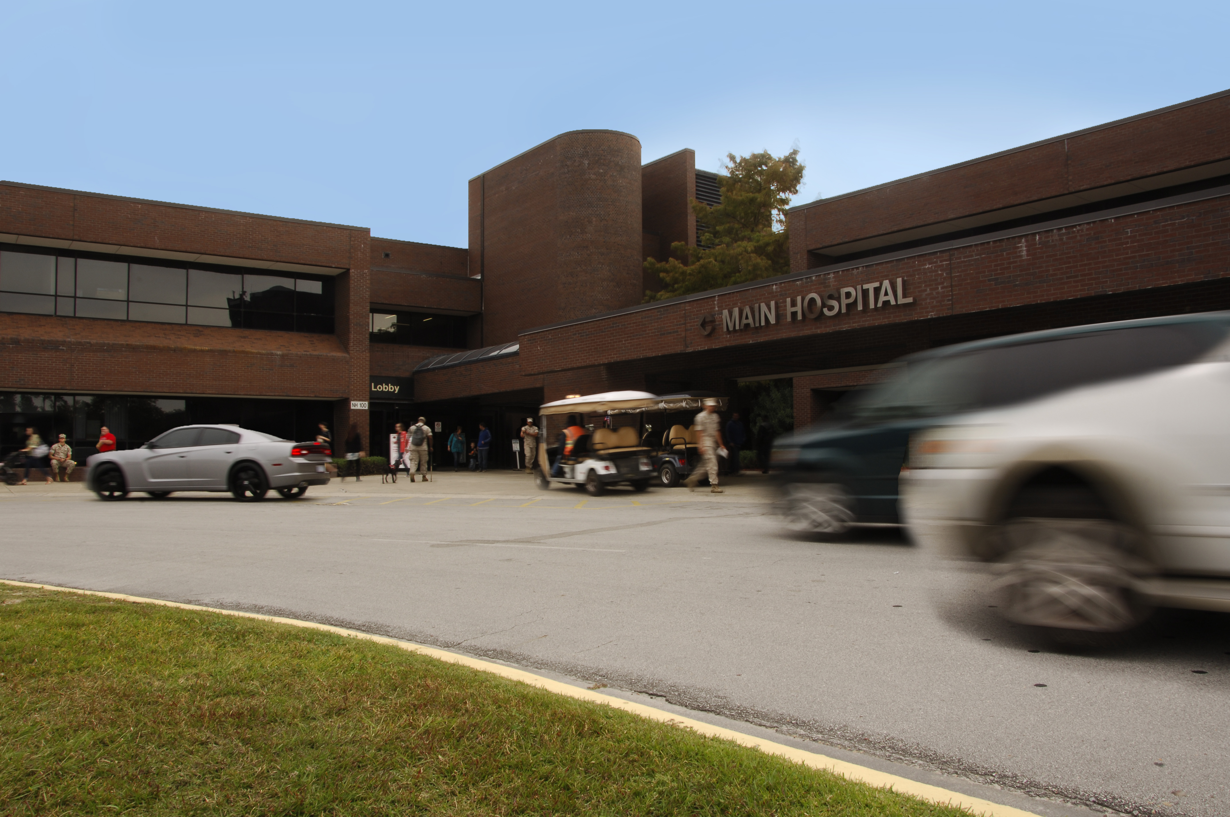 Naval Hospital Camp Lejeune has a three-pronged mission - operational readiness, patient and family-centered care and professional development.